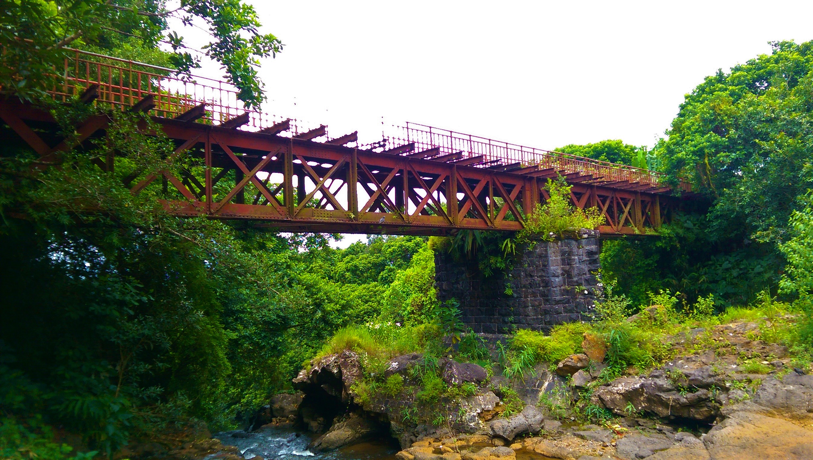 Old Railway line connecting Riviere du Poste to Rose Belle